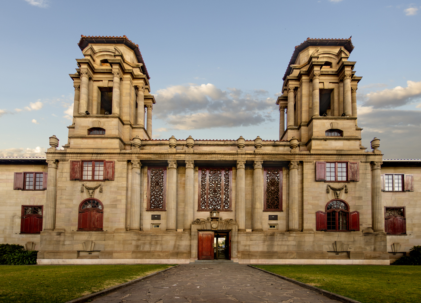 East office entrance to the Bloemfontein City Hall. This media shows a South African Protected Site with SAHRA file reference 9/2/302/0019.